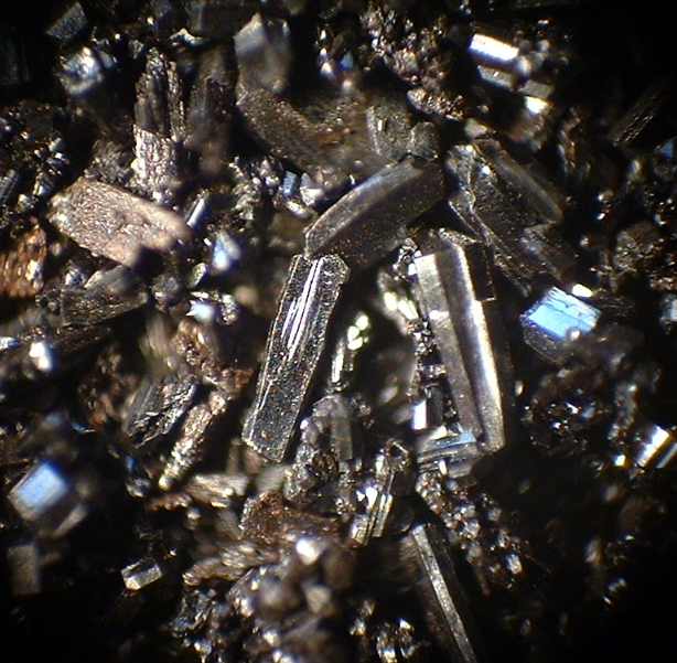 C60 Buckminsterfullerene, crystallized. From the Leopold-Franzens-Universität Innsbruck.